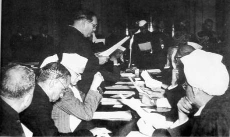 Dr. Ambedkar being sworn in as Minister of Law, 1947. V. N. Gadgil sitting next to him and Sir Servapalli Radhakrishnan on the extreme right.